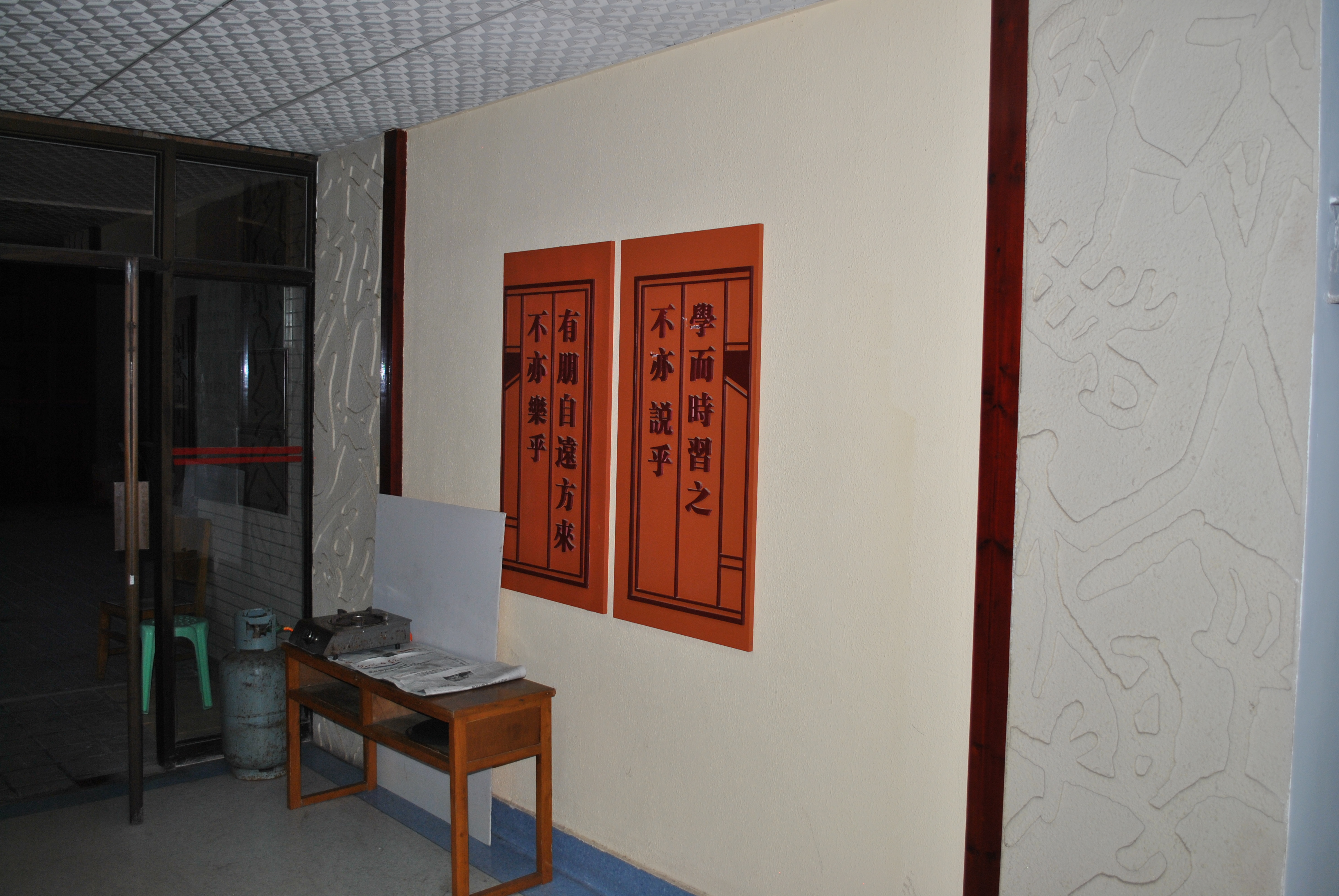 Wuhan University College of Chinese